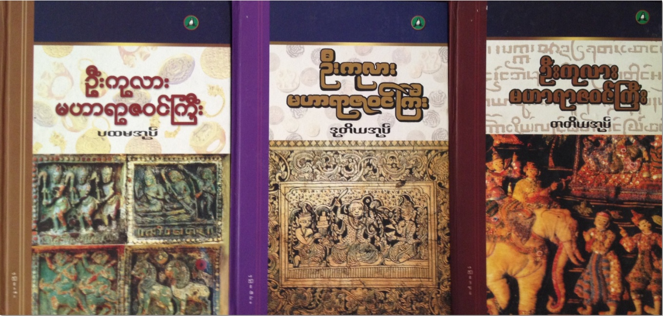 A 2006 edition of Maha Yazawin (the Great Chronicle)